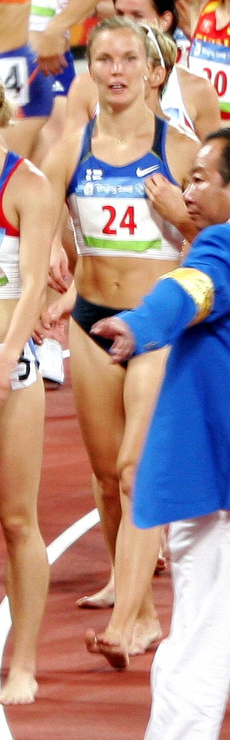 Women's heptathlon Niina Kelo .